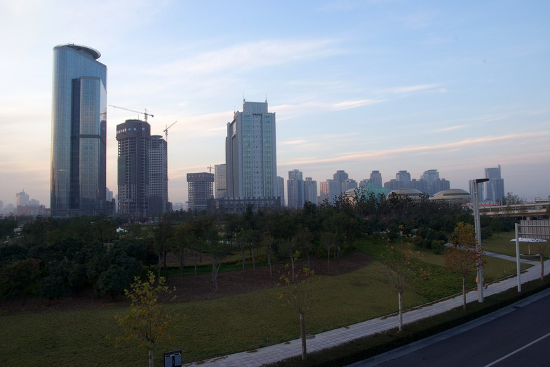 Zhengzhou City